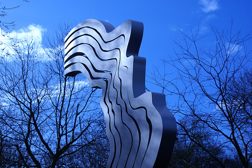 Monument of honour Theo van Gogh, the filmmaker who was killed in 2004. The monument called "De Schreeuw" (The Scream) was revealed on the 18th of march 2007, and was made by Jeroen Henneman. This picture was taken on that day by Roi Shiratski.